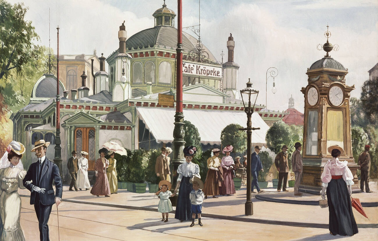 Das Cafe Kröpcke